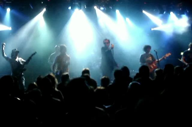 The English band Blue Aeroplanes - live performance in 2006.